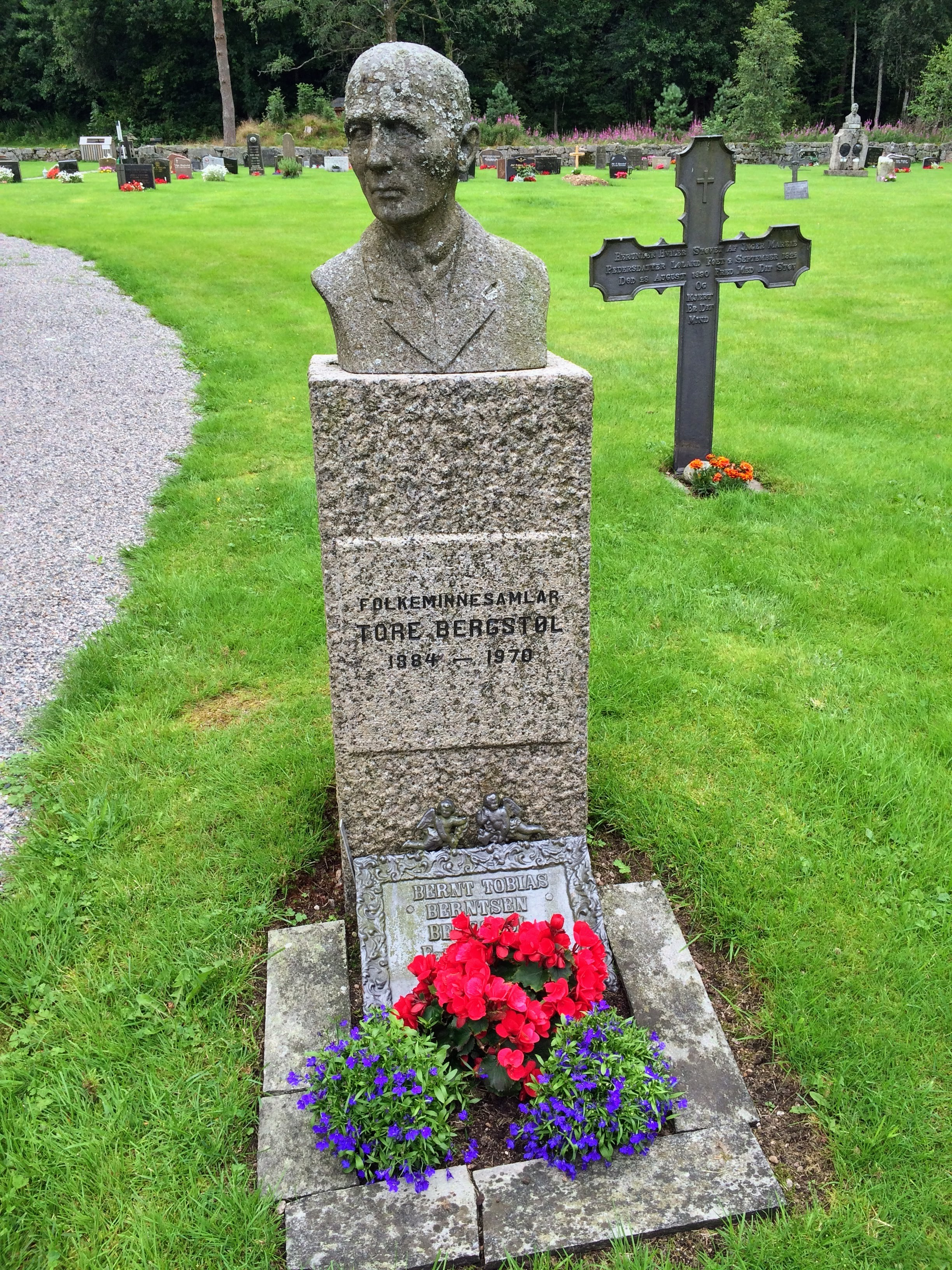 Tore Bergstøl (1884-1970), Vigmostad Kirke, Vigmostad